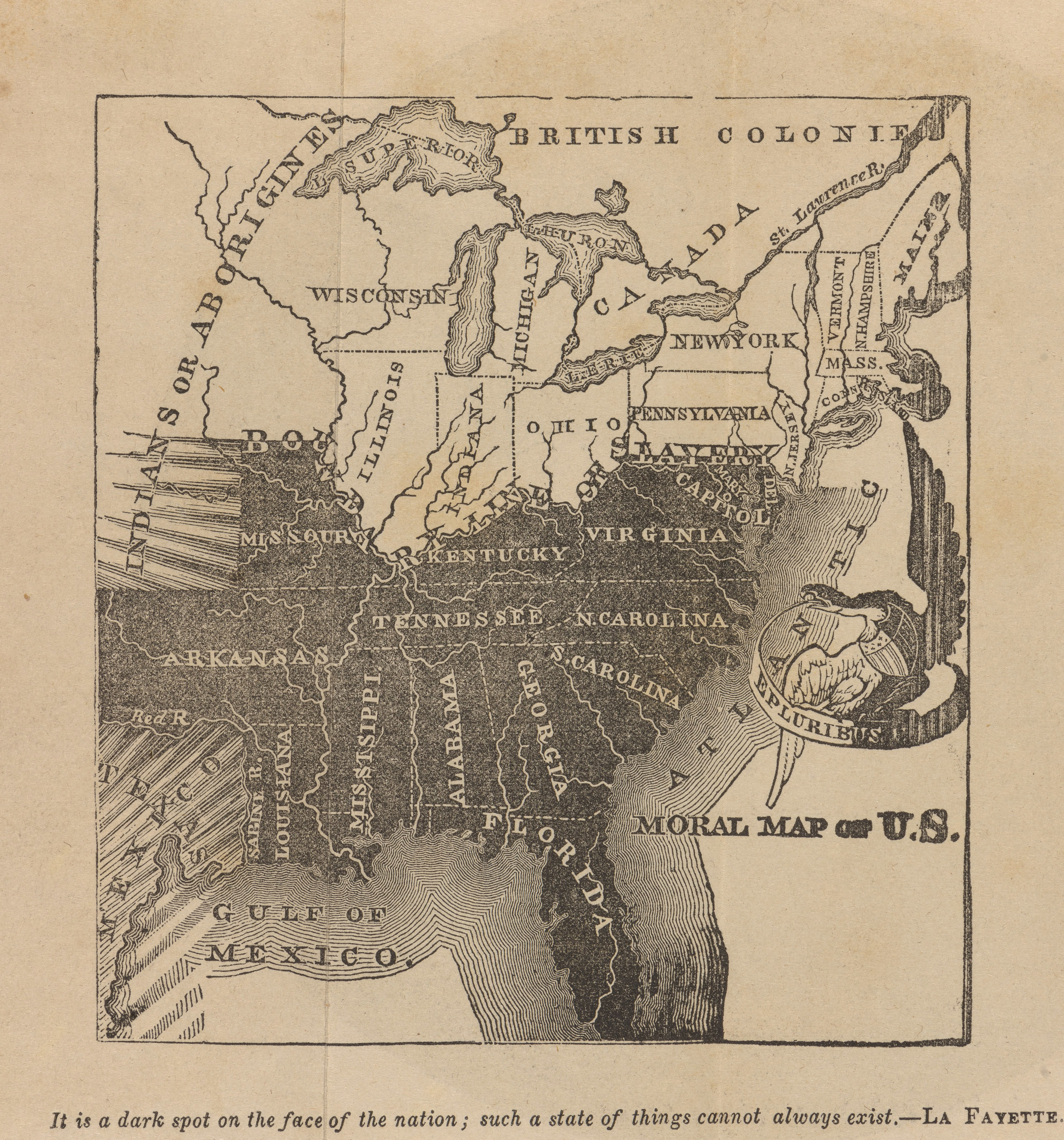 This anti-slavery map was first published in 1837, before the annexation of Texas and republished several times up to 1857. It shows the slave states in black, with black-and-white shading representing the threatened spread of slavery into Texas and the western territories.